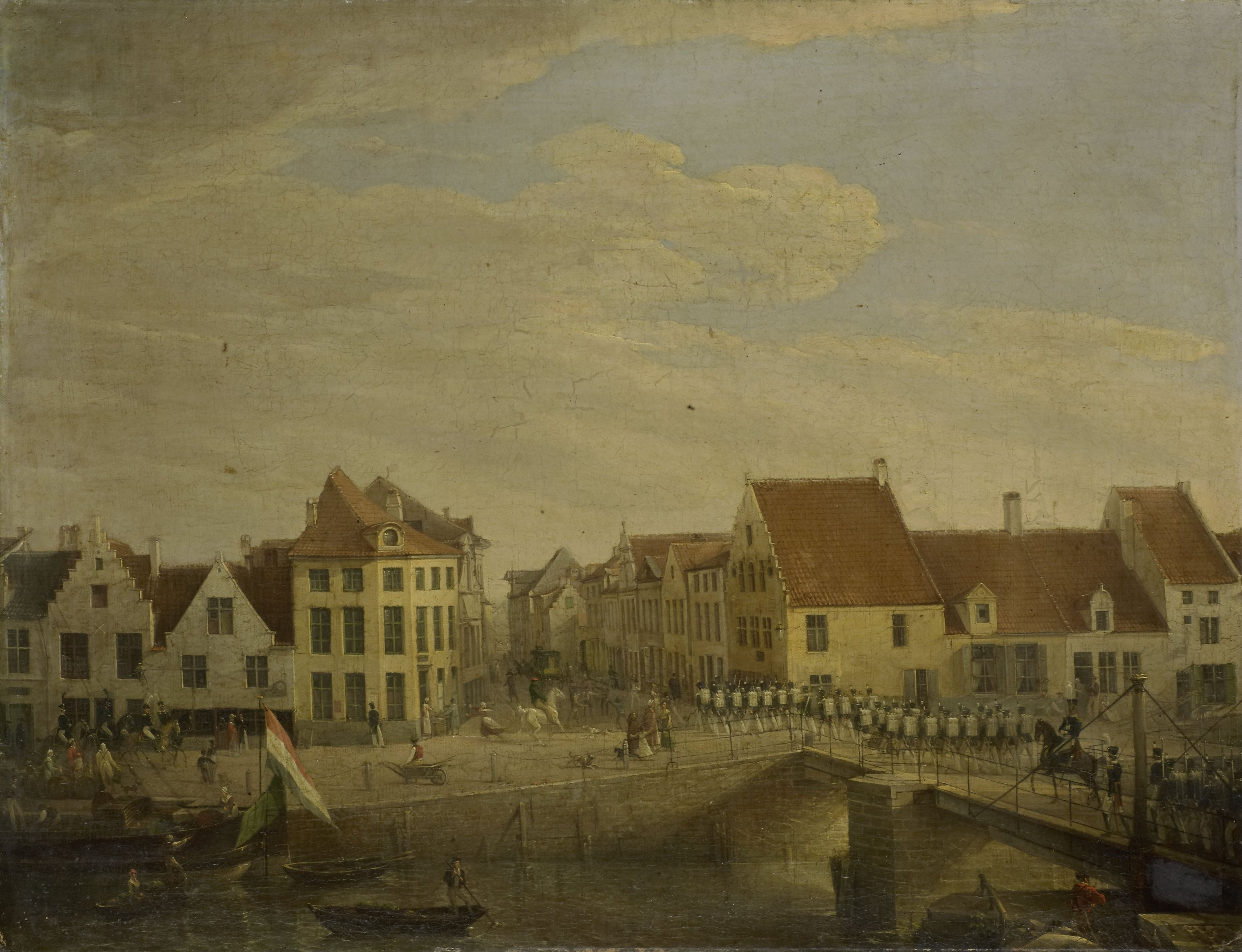 Hollandic troops passing through the fortified city of Dendermonde. On the right some soldiers marching over Bogaerd Bridge and are going into the direction of Ferry Street. On the left Scheldt Street (now Franz Courtens Street) with the quayside, to where a boat with a Hollandic flag has harbored. On the quayside some officers on horses. On the right four houses of Castle Street.